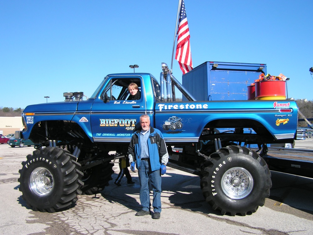 Bigfoot #1, with Jim Kramer.